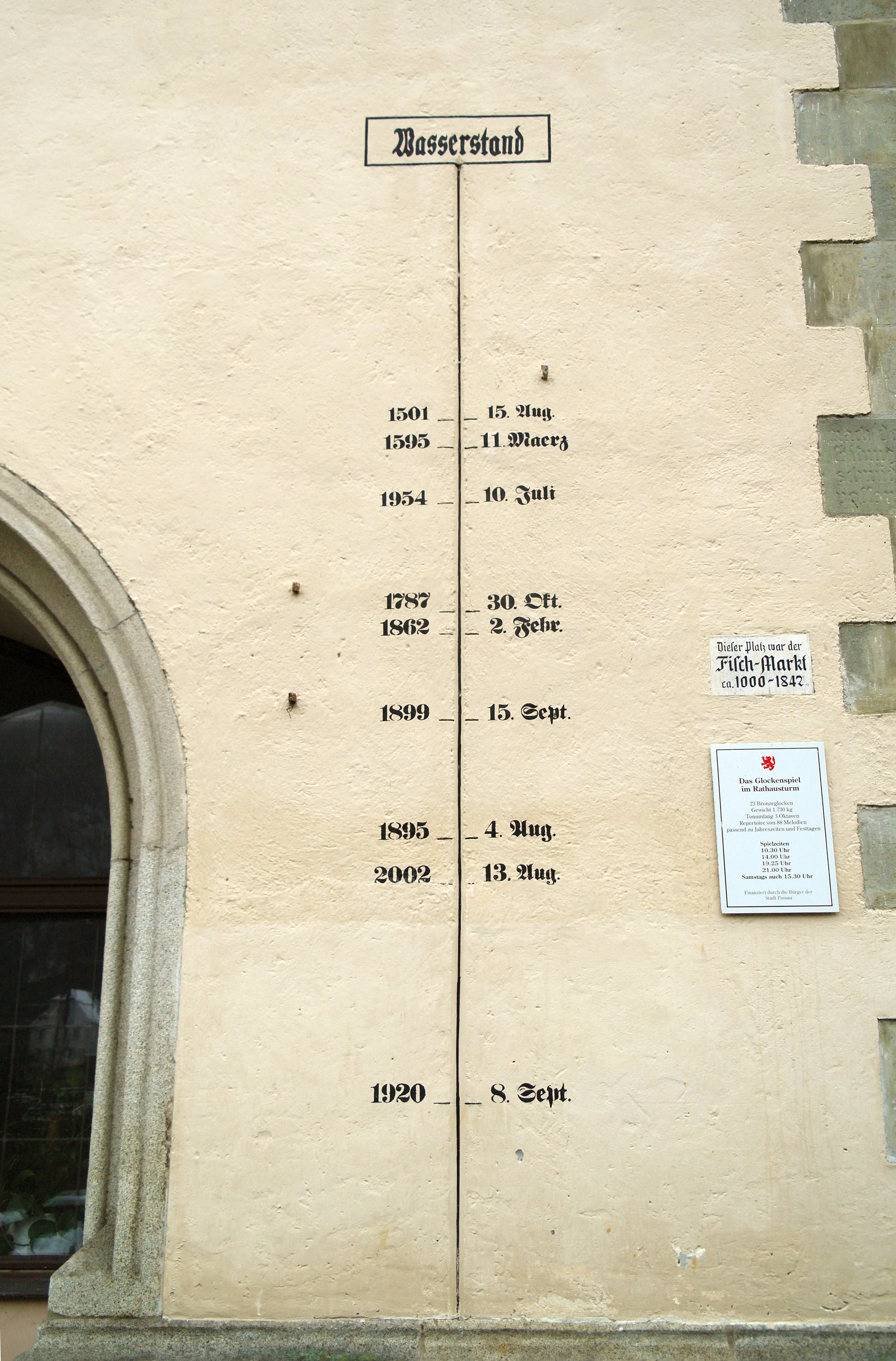 Flood level sign at tower of Town hall of Passau